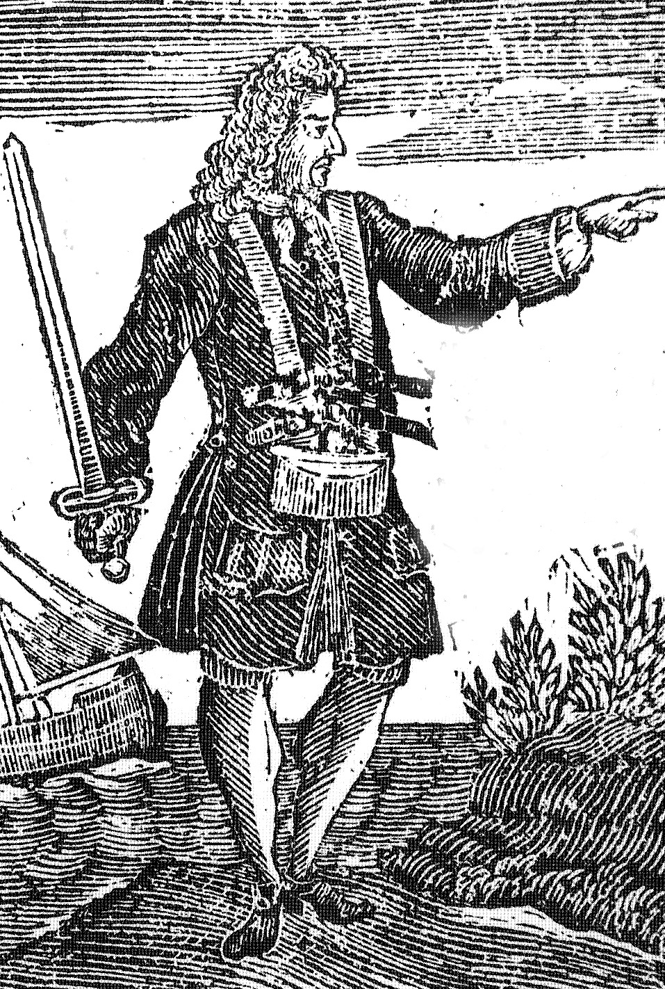 Early 18th century engraving of Charles Vane